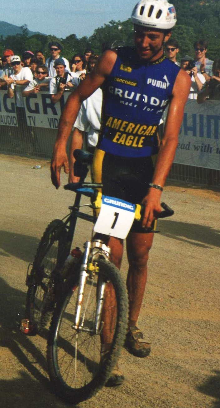 Photograph of Bart Brentjens, taken after winning the Cairns UCI Grundig Mountain Bike World Cup mountain bike race in 1994